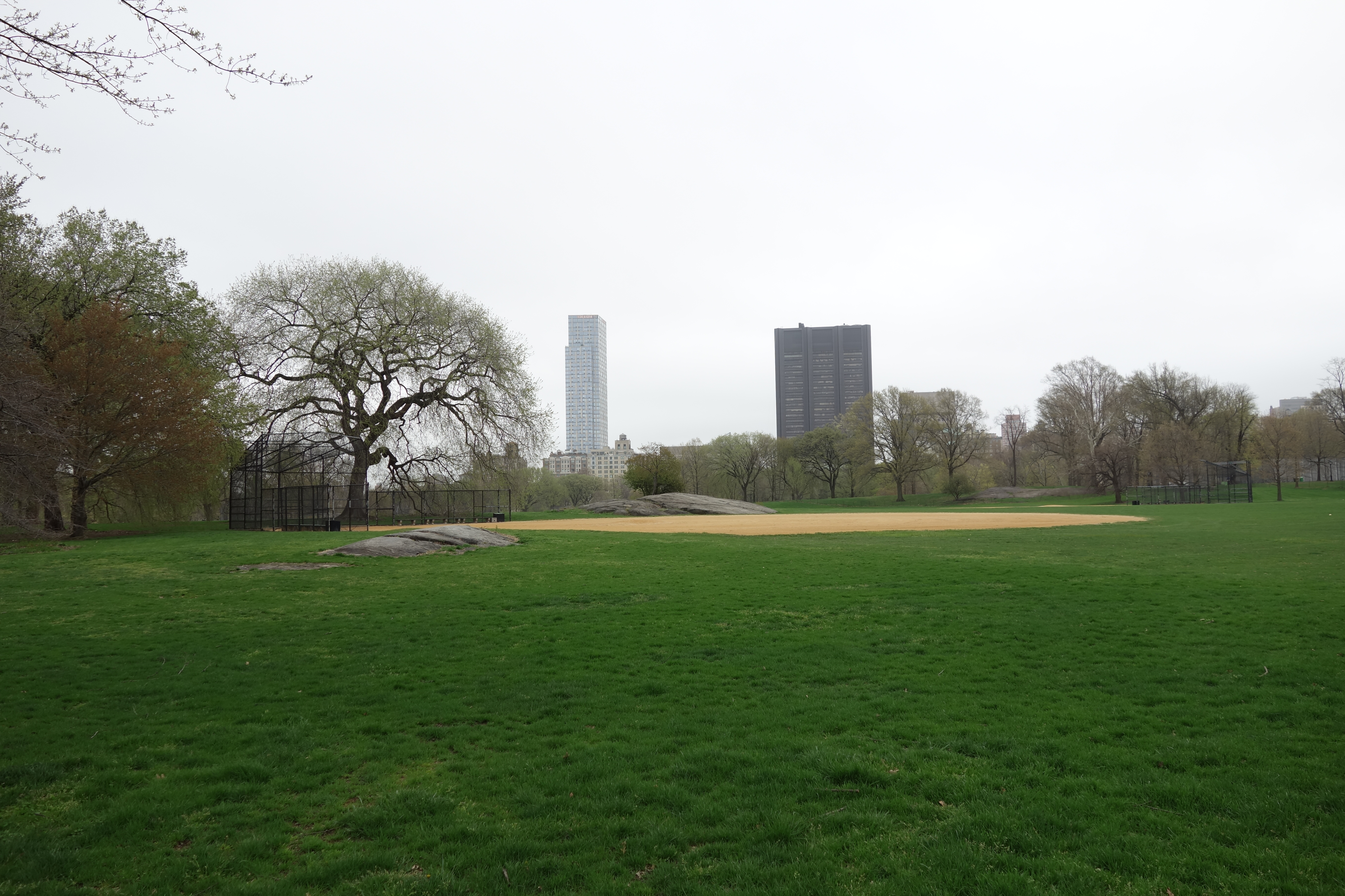 Looking into Baseball Field 1 of Central Park North Meadow, north of the 97th Street Transverse near the Upper West Side, Manhattan. My most recent memory of this field is playing a game against the now-defunct Manhattan Graphics High School. A college professor of mine once pondered aloud what it would be like to play baseball in Central Park, thinking it would be great. Well, on a positive note, a cool thing about this field is the rocks located along both baselines, which can also serve as natural grandstands. Of course, they also serve as obstacles to a fielder with metal cleats.